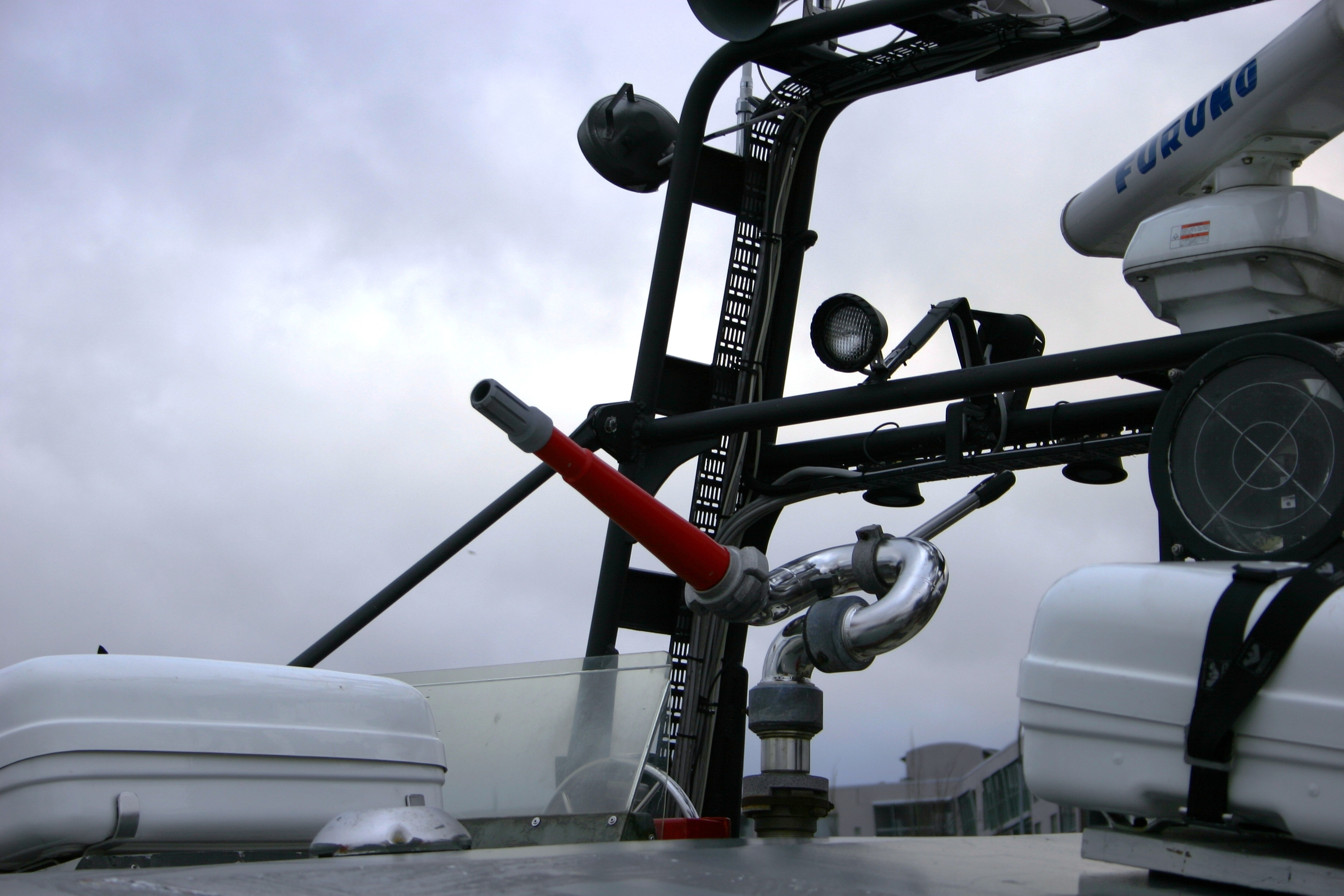 A water cannon in a rescue boat